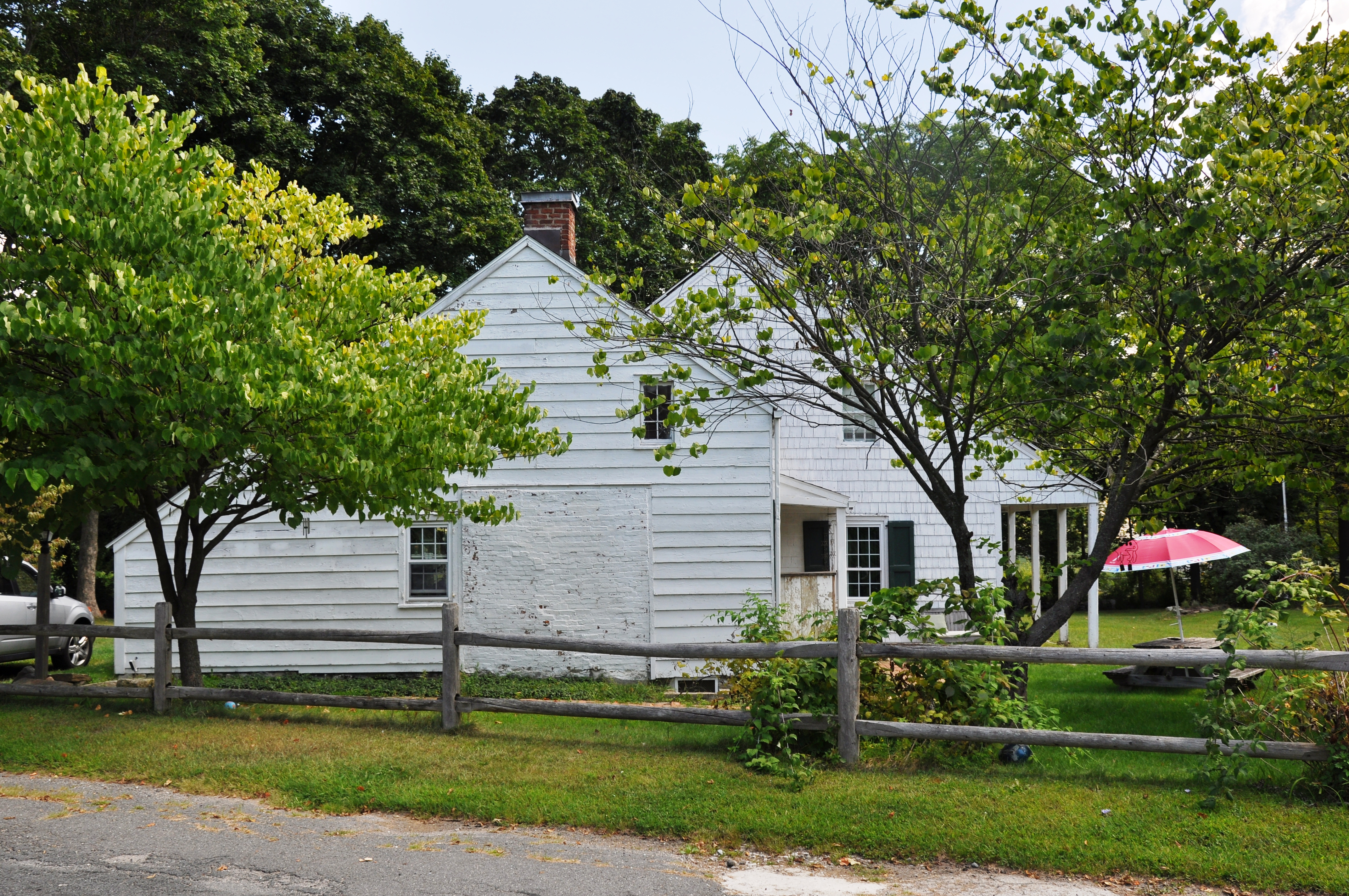 The Hammond House in Eastview, New York, taken on the below date.